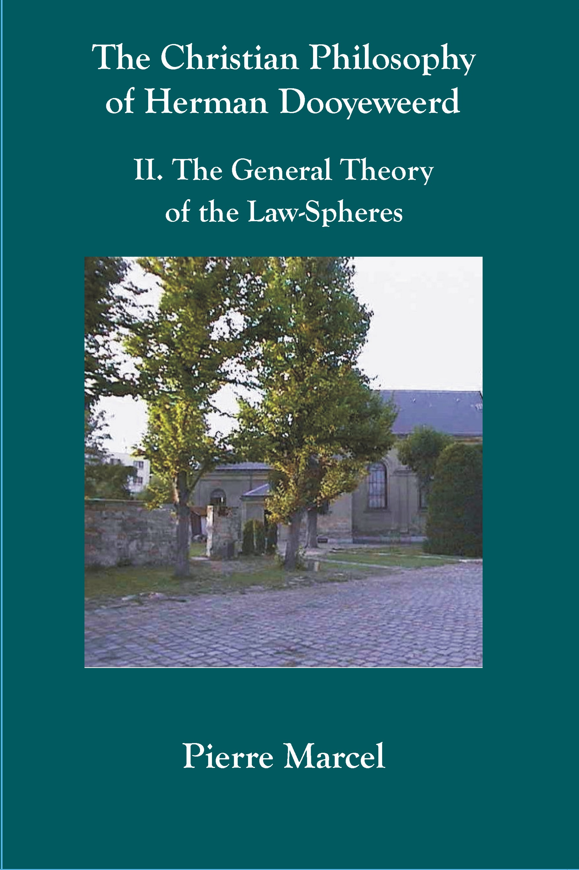 Marcel Book 2